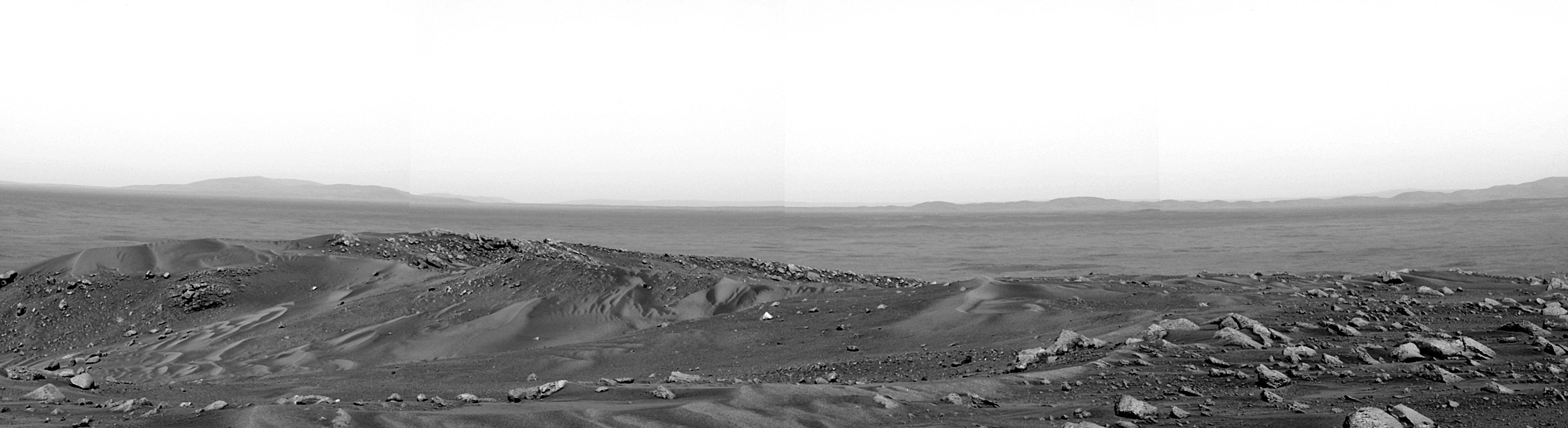 This panorama is one of the first that NASA's Spirit rover snapped upon reaching the summit of "Husband Hill," located in "Columbia Hills" in Gusev Crater, Mars. It reveals the vast landscape to the east previously hidden behind the Columbia Hills. The rim of "Thira Crater" frames the distant horizon some 15 kilometers (9.3 miles) away. The summit area is divided by a shallow saddle that slopes north (left) into an area called "Tennessee Valley." Large amounts of sandy material have been blown up the valley and across the saddle in the left-to-right direction, creating the rippled piles of sand seen in this image. The science team will examine bedrock and other materials in the summit area to determine their composition and the orientation of the rock layers. These and other observations will provide clues to how the rocks formed and how the hills were sculpted in the geologic past. This mosaic was taken by Spirit's panoramic camera, using the blue filter of its right eye. Image Credit: NASA/JPL-Caltech/Cornell